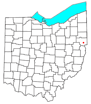 Locator map of the unincorporated community of West Point in Columbiana County, Ohio, United States.